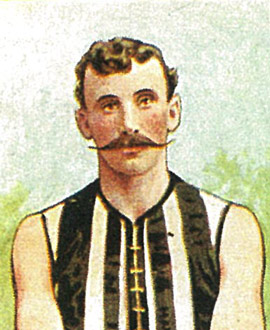 Photograph of Eddie Drohan in 1906.